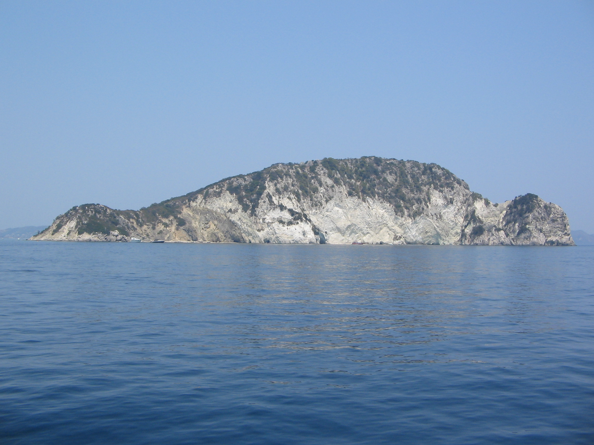 Marathonisi, Zakynthos, Ionian Islands, Greece